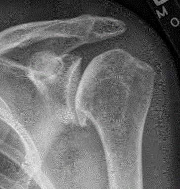 Projectional radiography ("X-ray") of the shoulder, showing osteoarthritis.